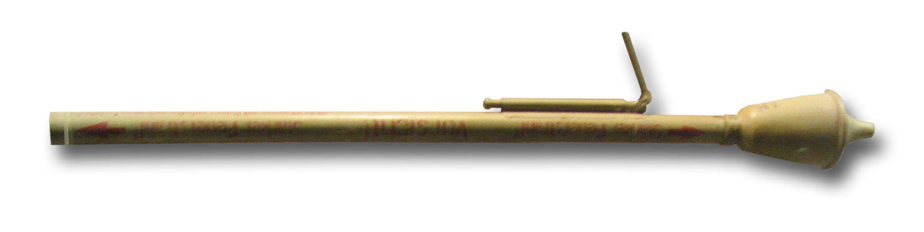 Panzerfaust "Faustpatrone" in Belgium